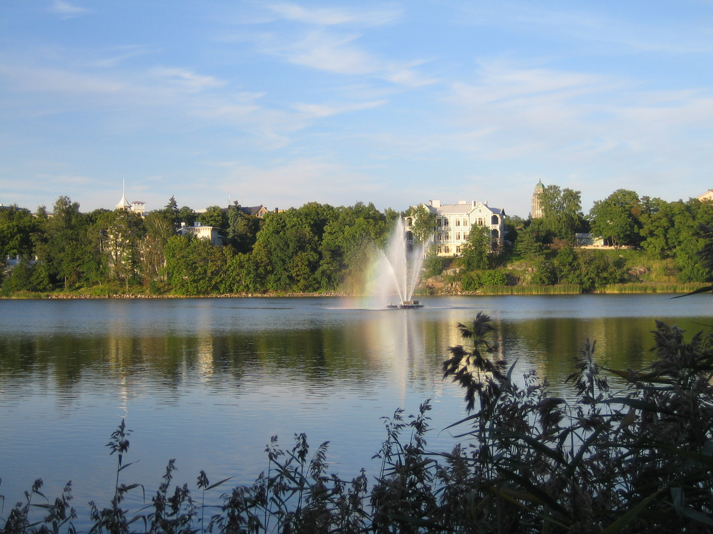 Töölönlahti bay, Helsinki, Finland.